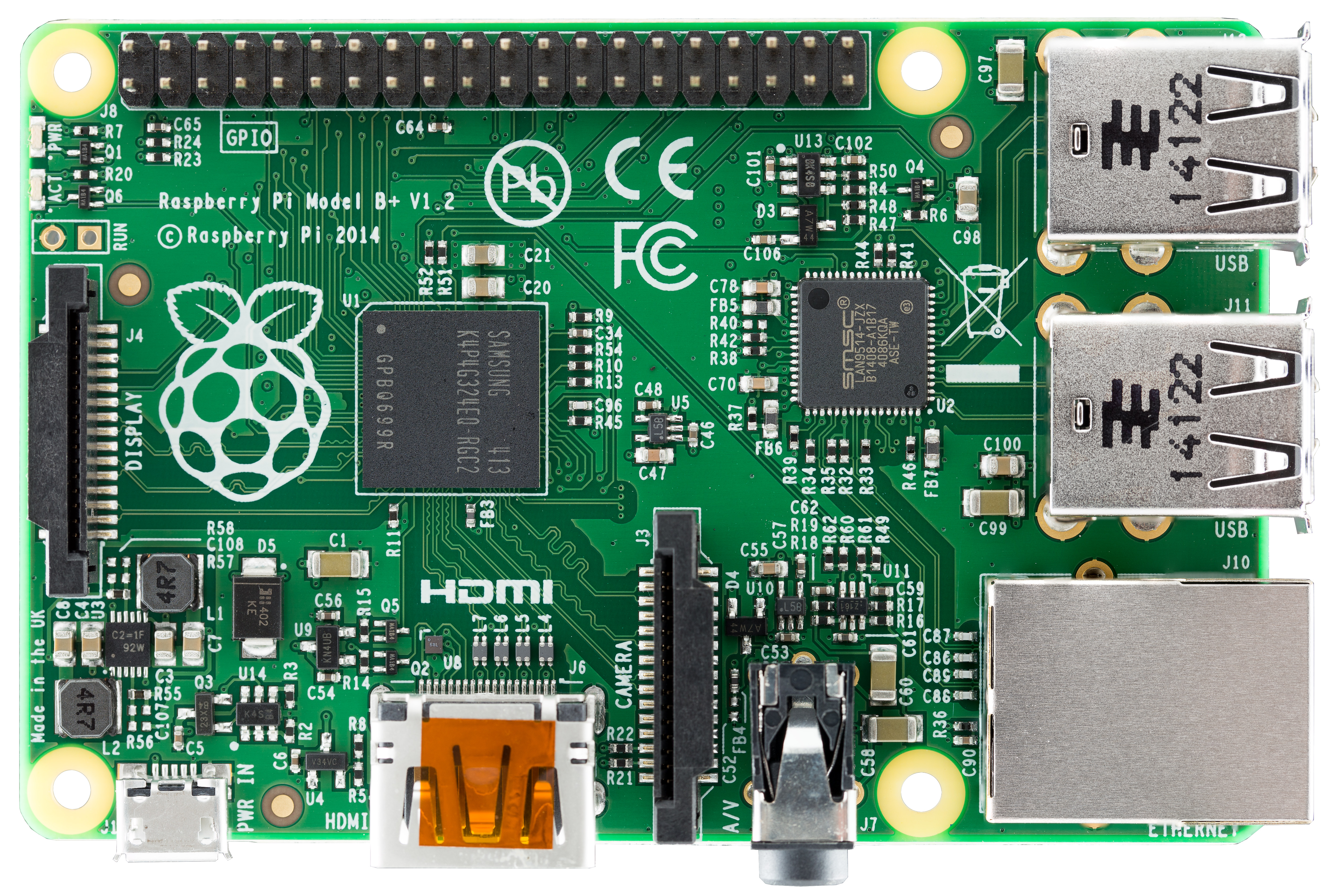 Top face of the Raspberry Pi model B+